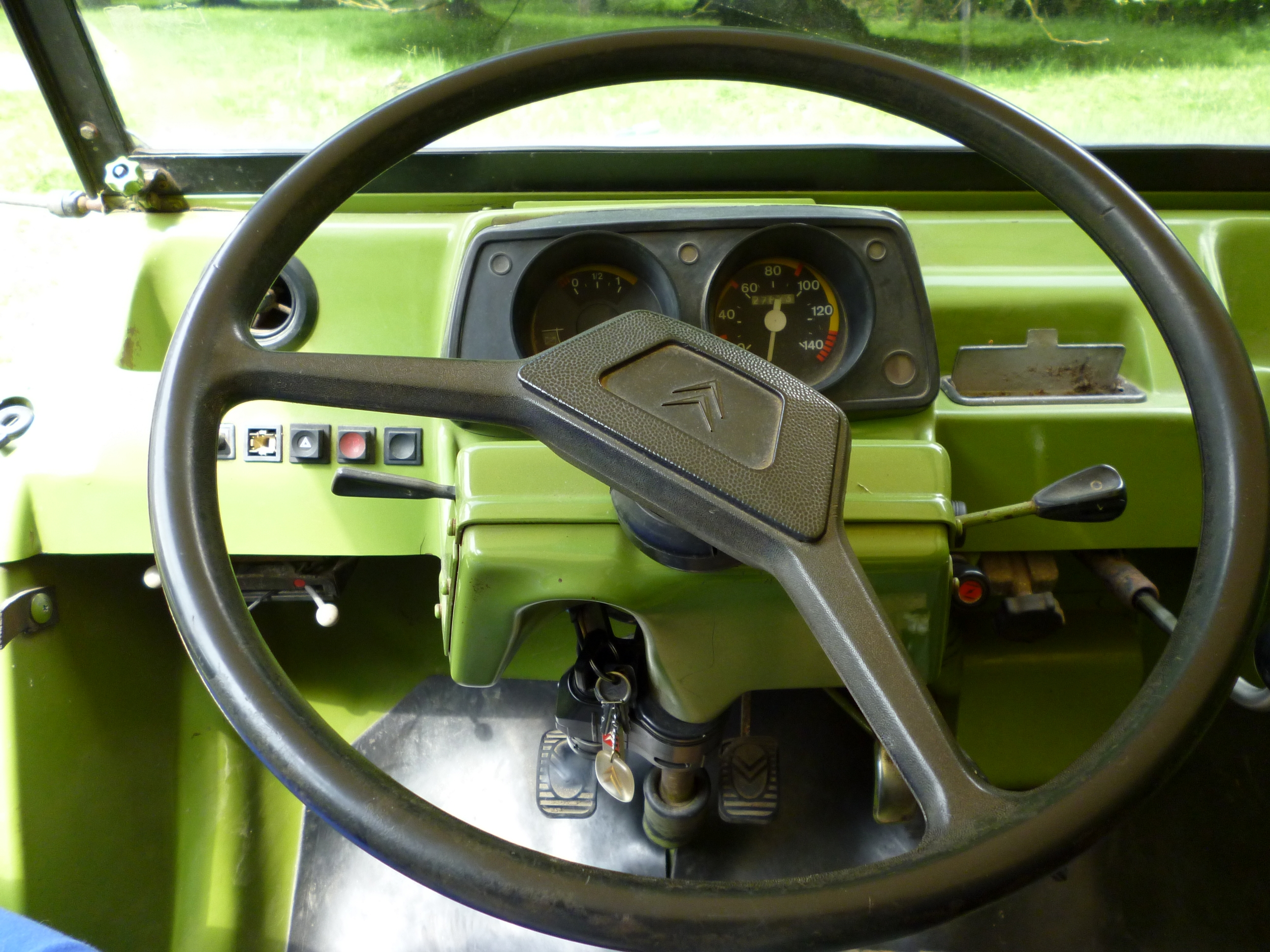 Steering wheel of a Citroën Méhari.